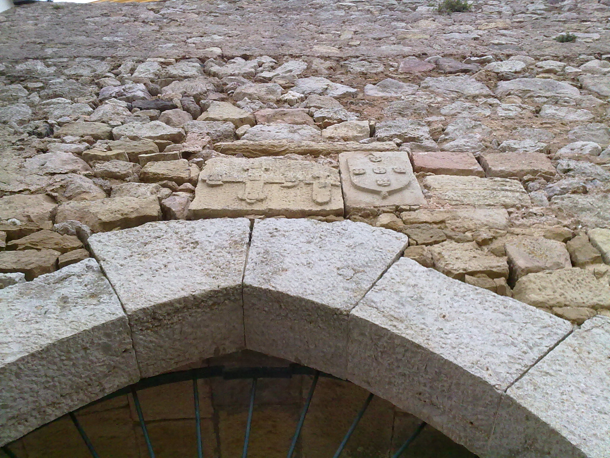 Castle of Santiago do Cacém, Portugal.